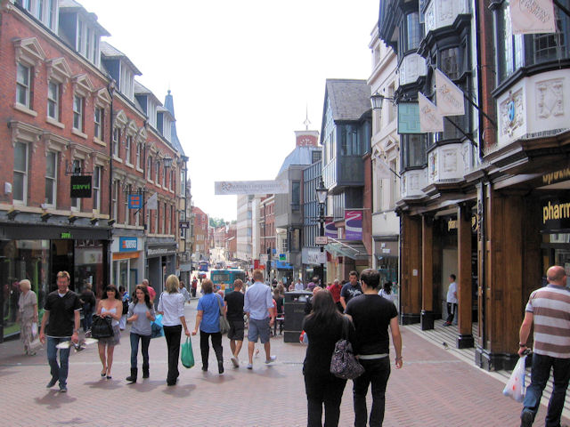 Pride Hill pedestrian precinct